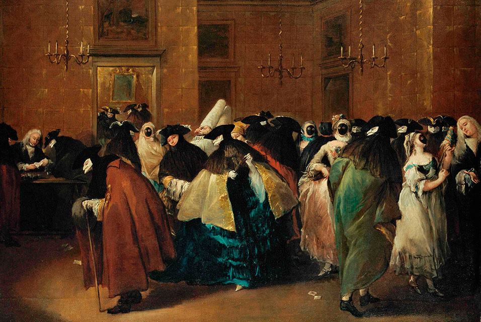 The Ridotto in Venice with Masked Figures Conversing (The Ridotto at Palazzo Dandolo)